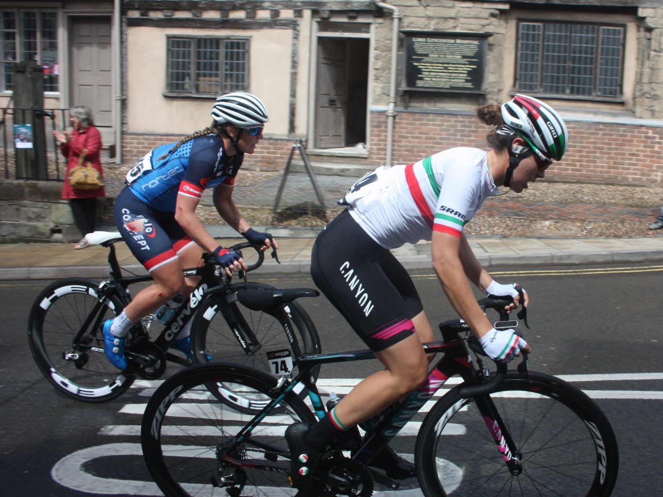 Elena Cecchini, the Italian road racing champion races through Warwick on stage 3 of the 2017 Women's Tour. Alongside is Sara Penton from the VeloConcept team who is showing signs of a crash earlier in the day.